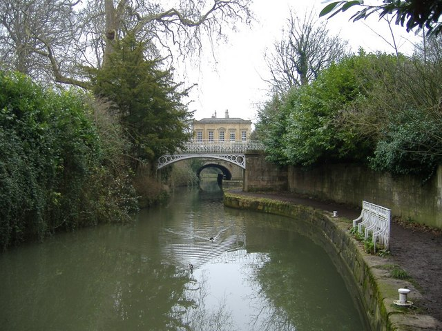 Kennet and Avon canal Passes through Sydney Gardens at this point.